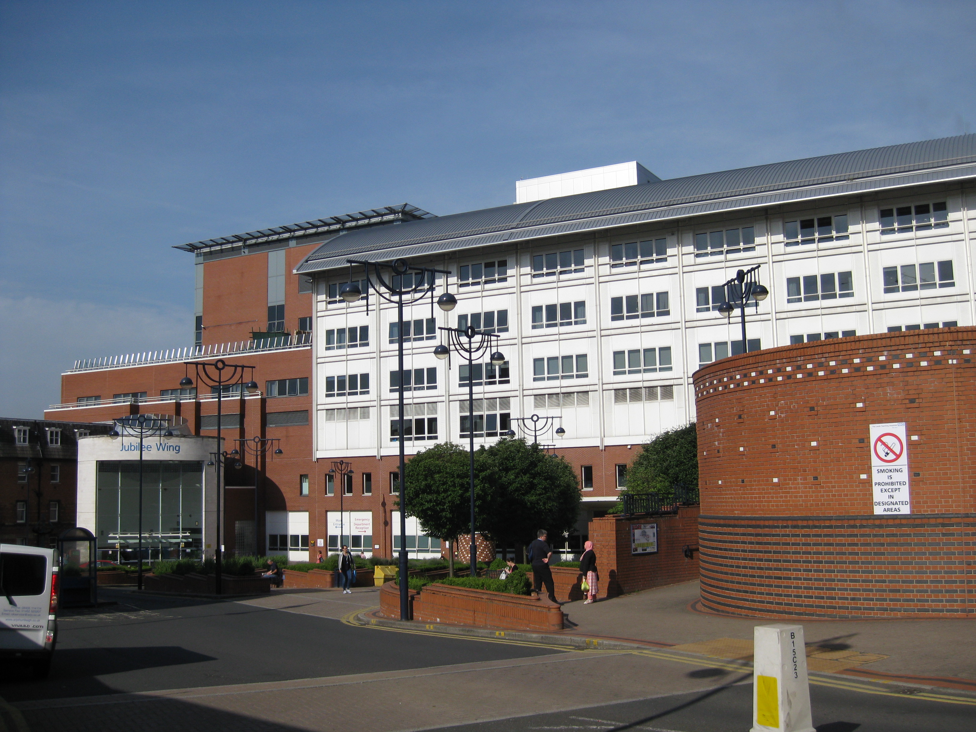 Leeds General Infirmary, Jubilee Wing